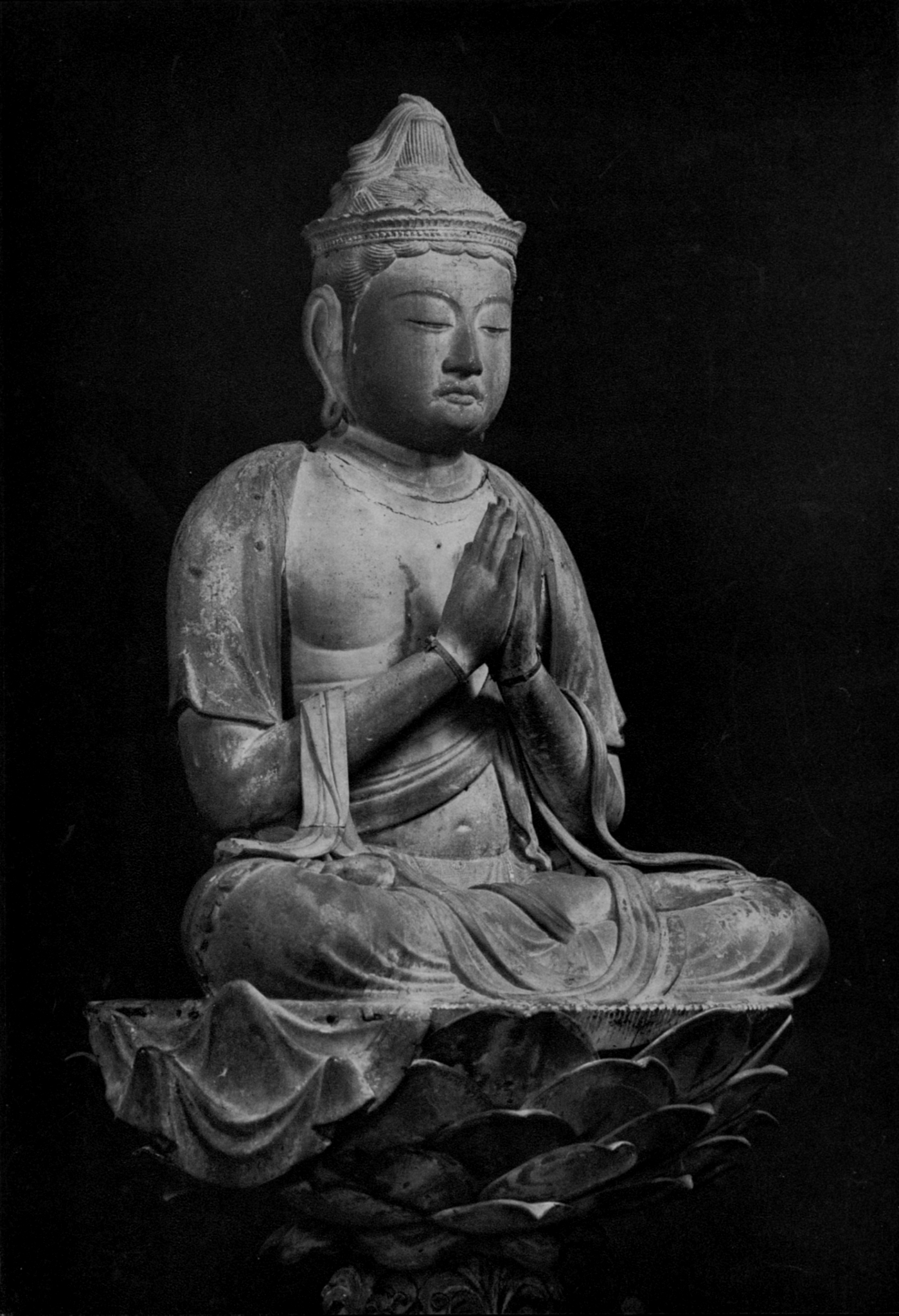 Fugen Bosatsu (Samantabhadra) on an elephant, upper detail , wood and cut-gold foil (kirikane), whole sculpture height 140cm(including elephant), Heian period, first half of 12th century, Ōkura Shūkokan Museum of Fine Arts, Tokyo